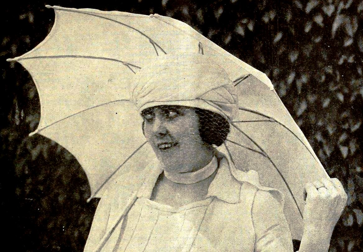 Still from the American film Bunkered (1919) with Mrs. Sidney Drew, on page 33 of the October 1919 Film Fun.